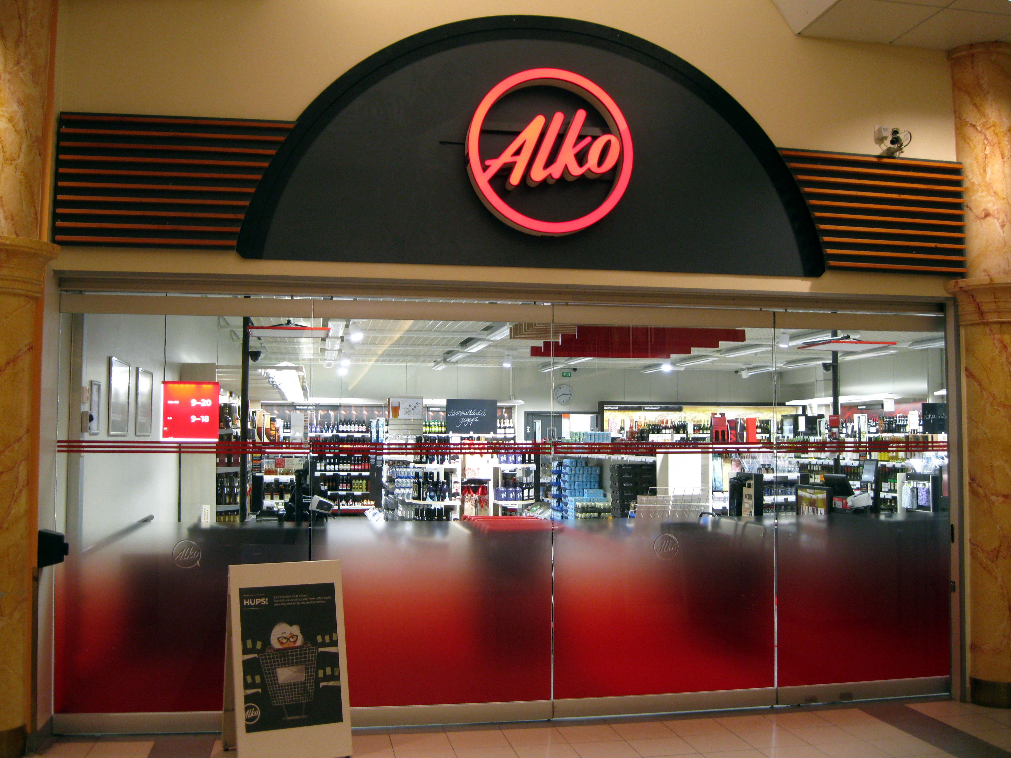 Alko in Tuuri, Alavus.